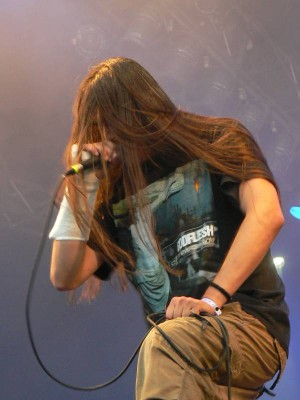 Decapitated, HunterFest, Szczytno, Plaża Miejska, 13.08.2006